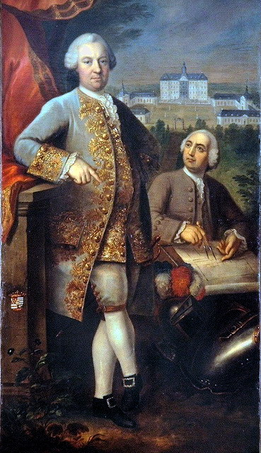 Johann Heinrich Fischer, Portrait of Count Wilhelm Otto Friedrich von Quadt and his architect Matheius Soiron in front of Schloss Wickrath (1773). Collection: Museum Schloss Reydt, Mönchengladbach, Germany